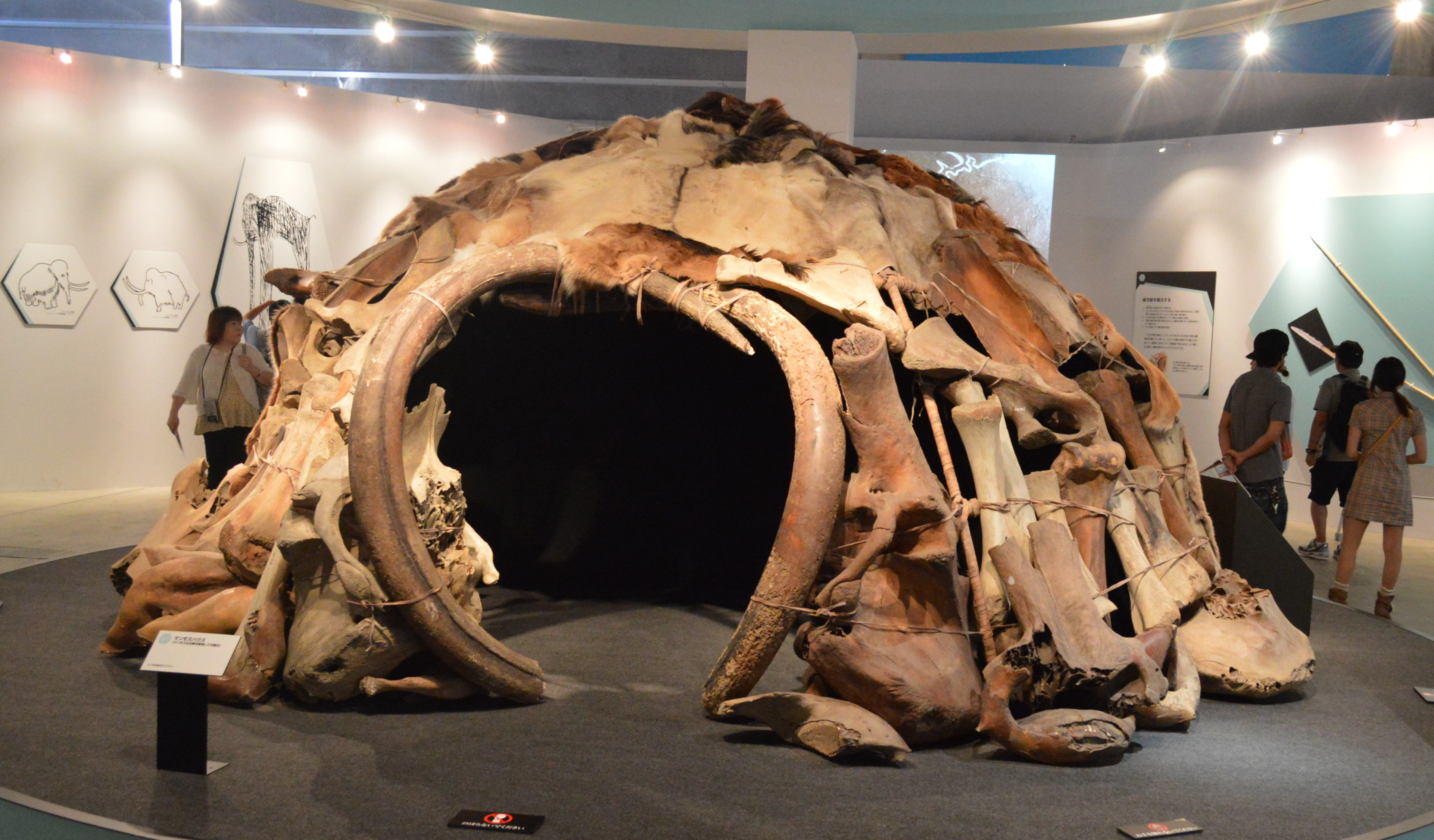 "Mammoth House" as shown at the "Frozon Woolly Mammoth Yuka Exhibit" in Yokoyama, Japan in Summer 2013. This replica was made for the exhibit with real mammoth fossils (bones and tusks).